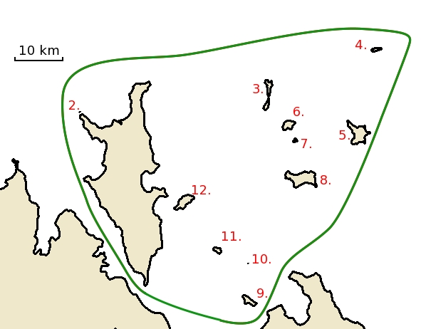 Location map for the Croker Island Group, based on information and maps on the Northern Territory Government website.